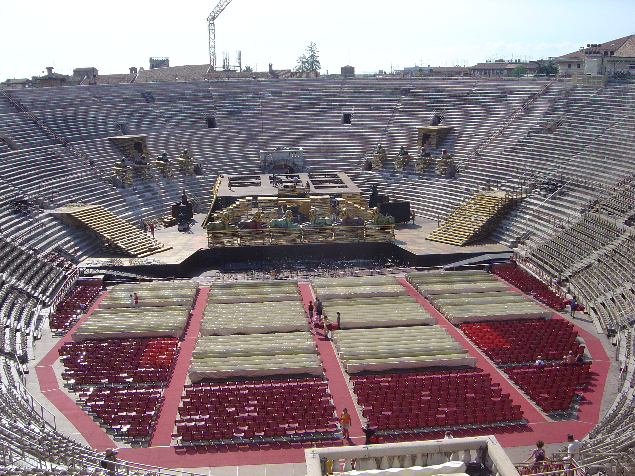 arena, Verona, Italy